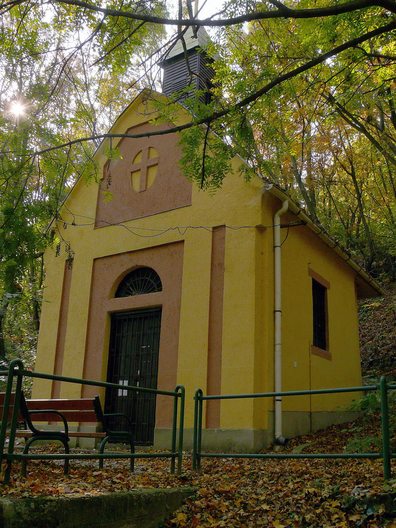 The Holy Blood Chapel (built between 1812-1814) in the Kiscell Park